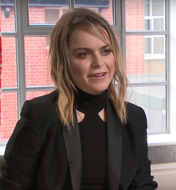 Taryn Manning in a 2018 interview with MTV International for Orange is the New Black